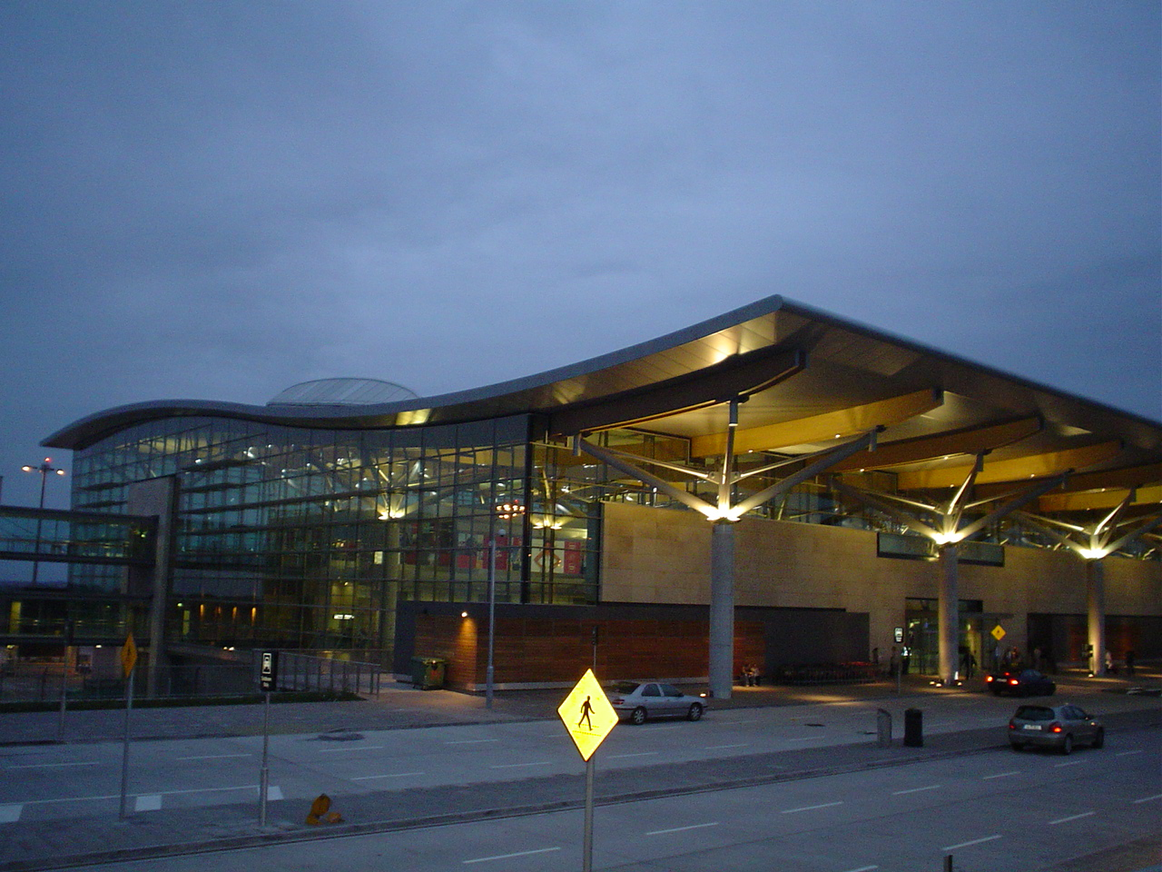 Cork airport